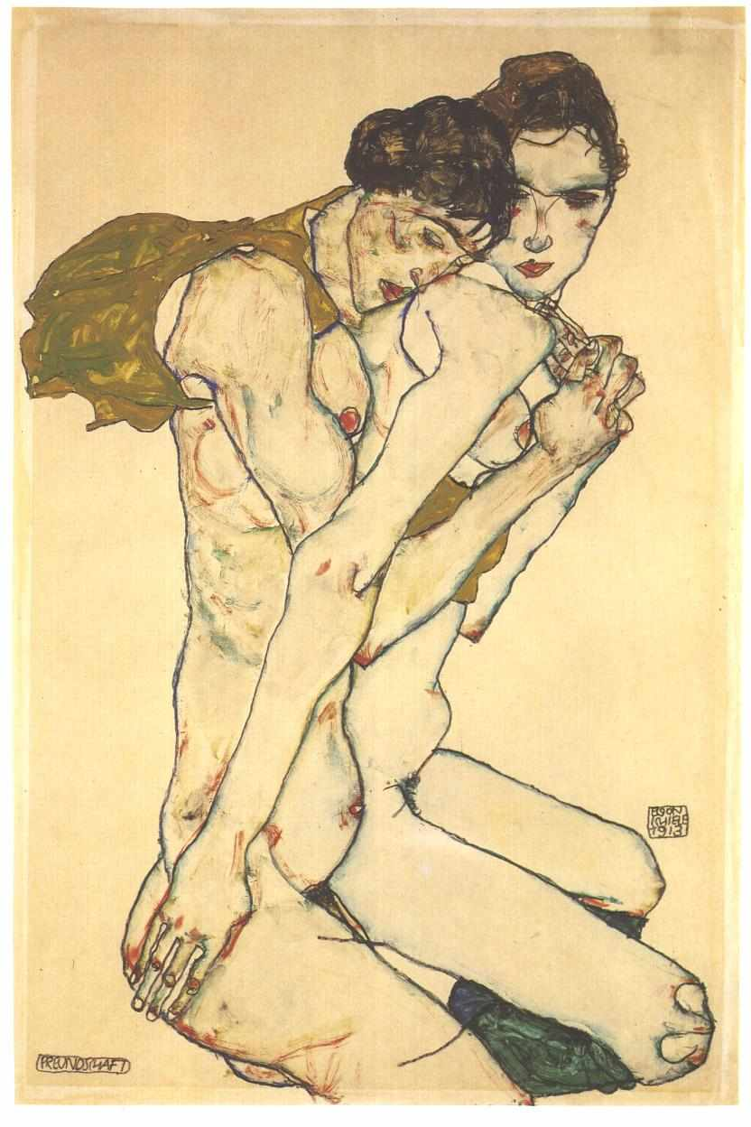 Friendship